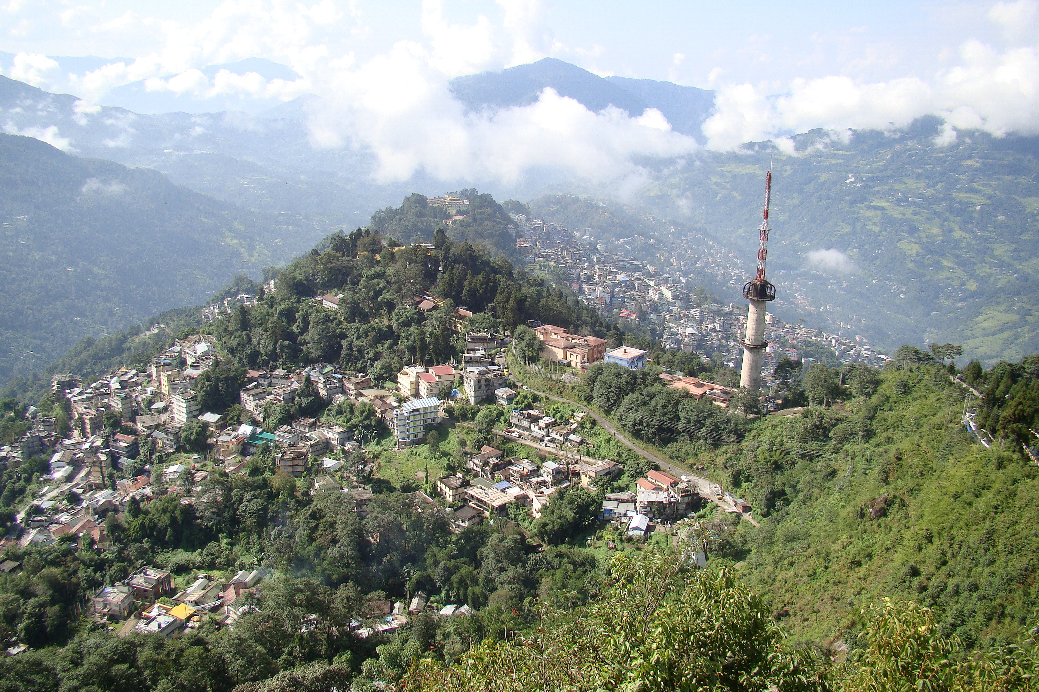 Gangtok seen from Ganesh-Tok-viewpoint